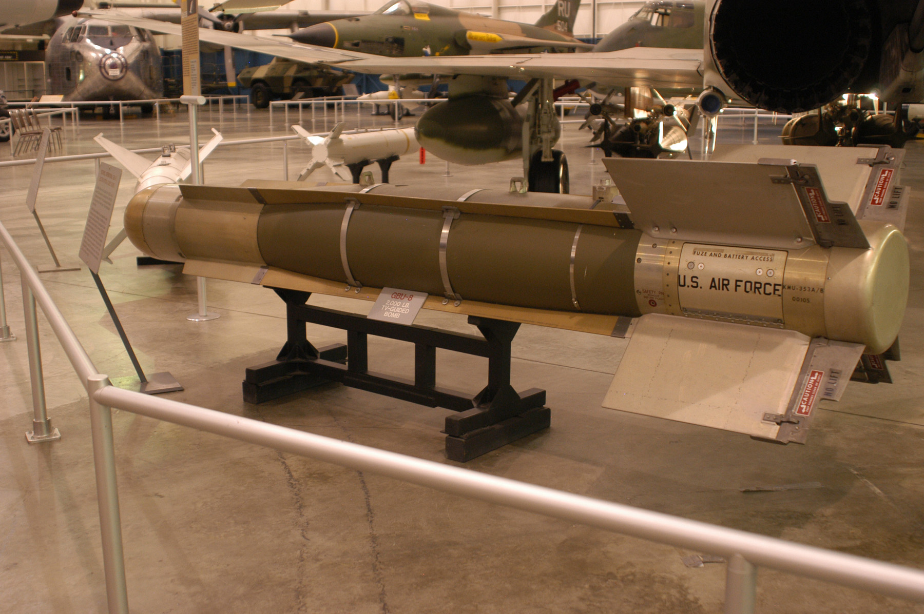 DAYTON, Ohio - Rockwell International GBU-8 Electro-Optical Guided Bomb on display at the National Museum of the U.S. Air Force.